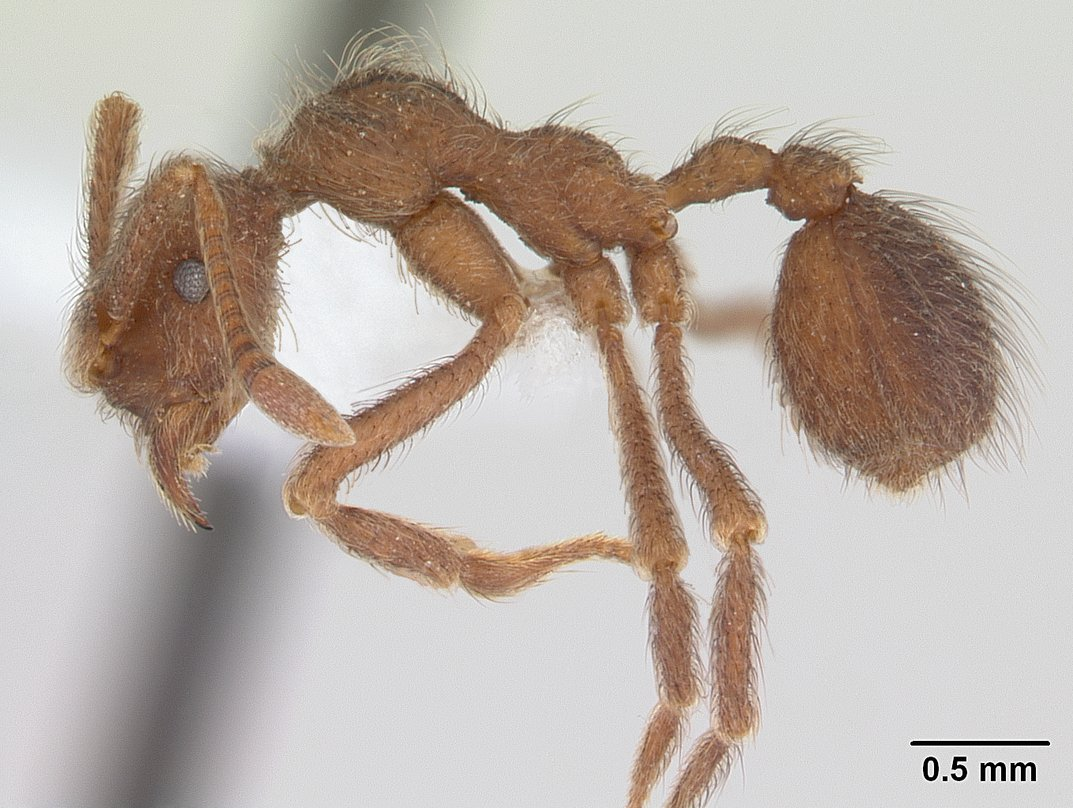 Profile view of ant Apterostigma pilosum specimen casent0603533.